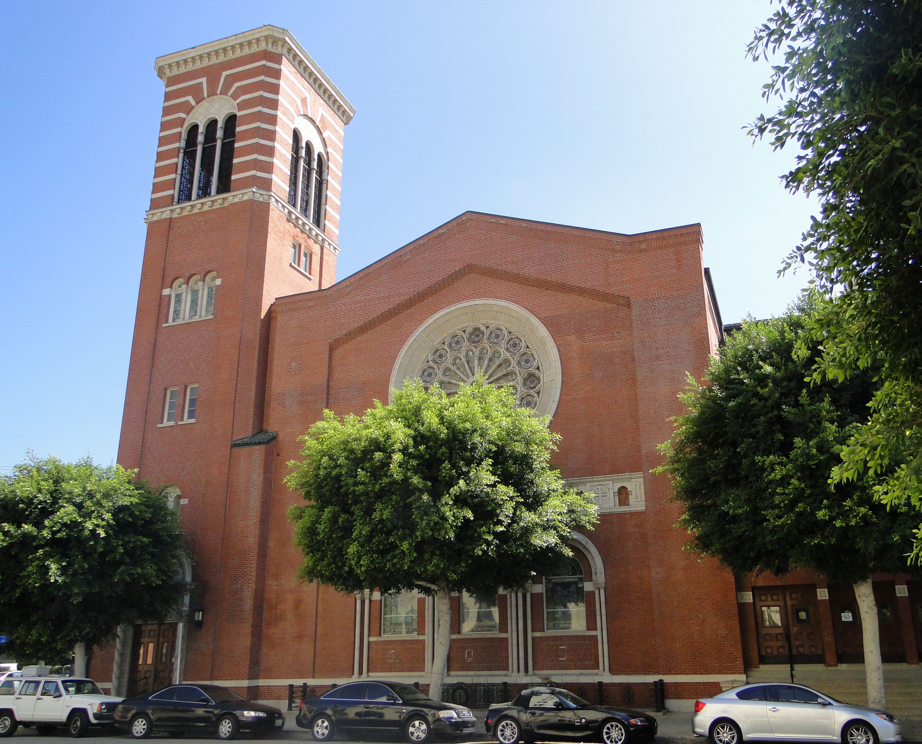 First Congregational Church, 241 Cedar Ave., Long Beach, California (Long Beach Historic Landmark 16.52.010)